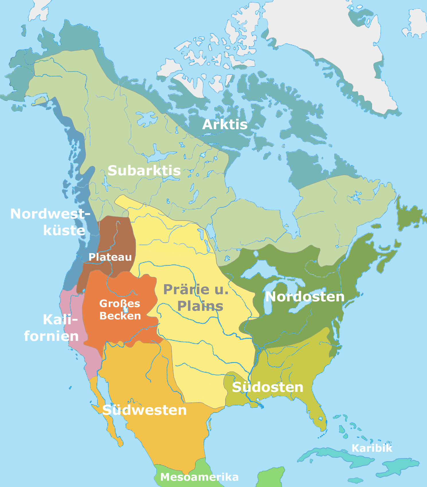 Classification of indigenious peoples of North America according to Alfred Kroeber